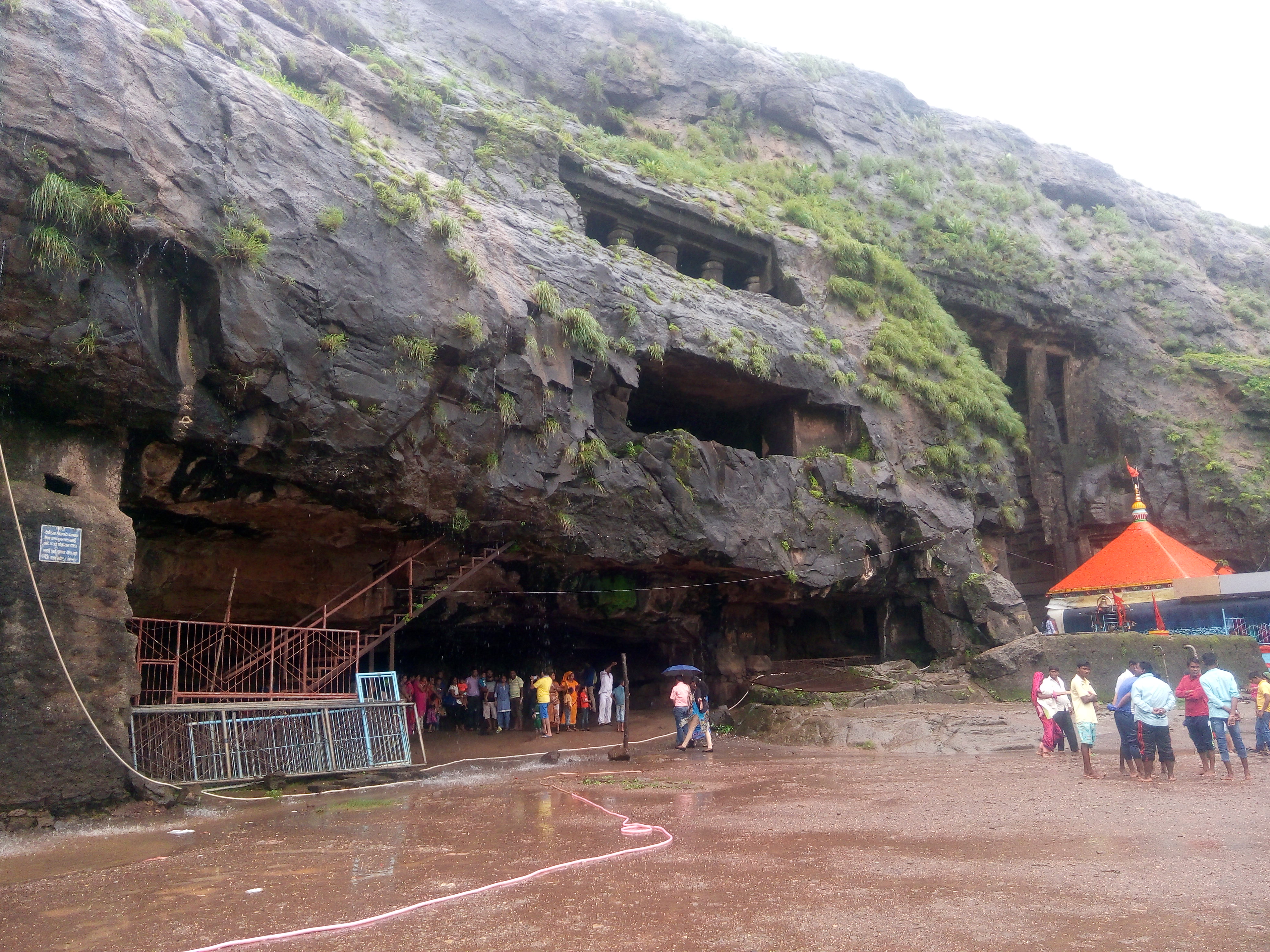 Goddess Ekvira Temple and karla Caves on 18/07/2015